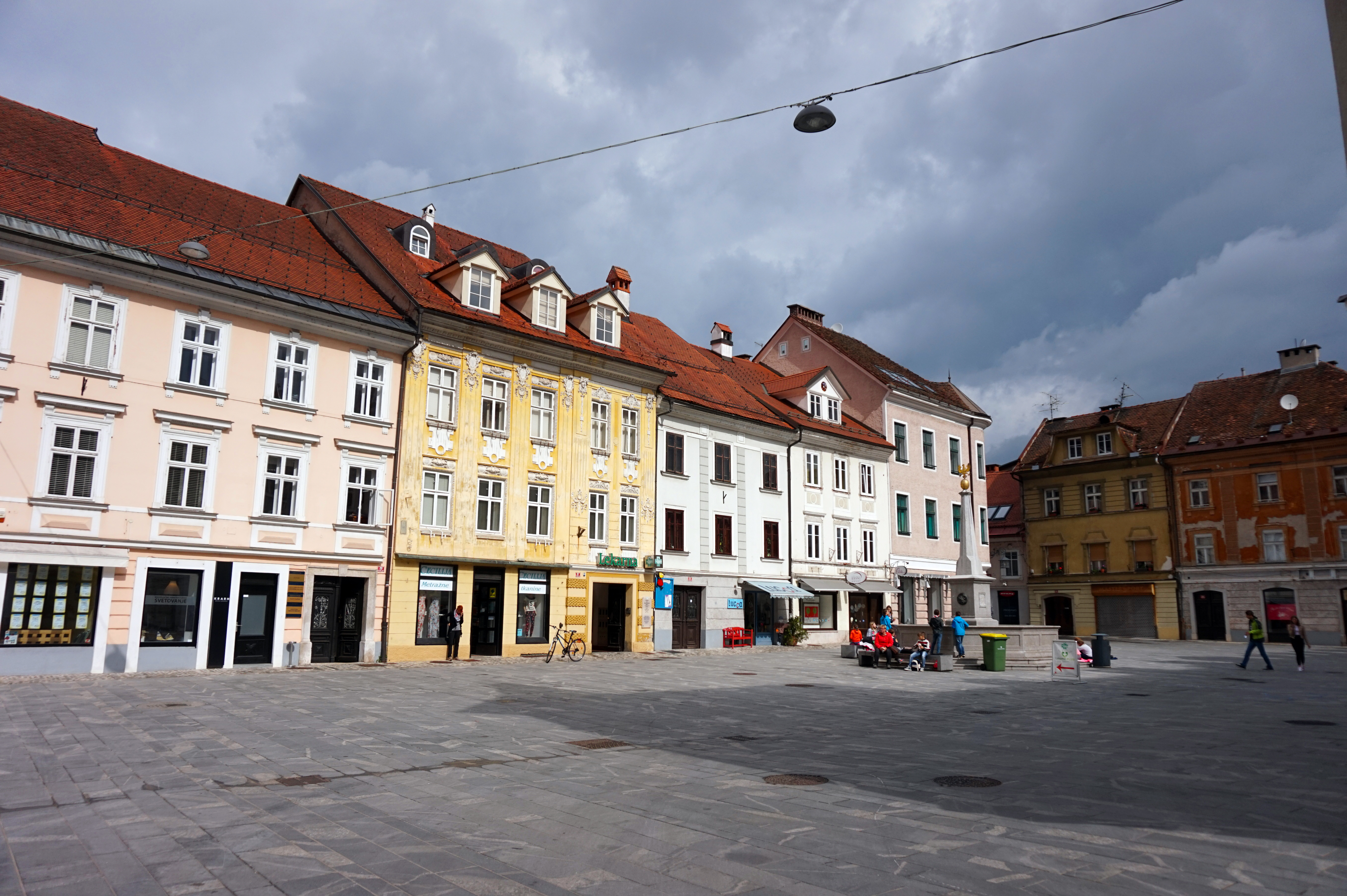 Glavni trg in Kranj, Slovenia. This photograph was taken with a Sony Alpha a5000.